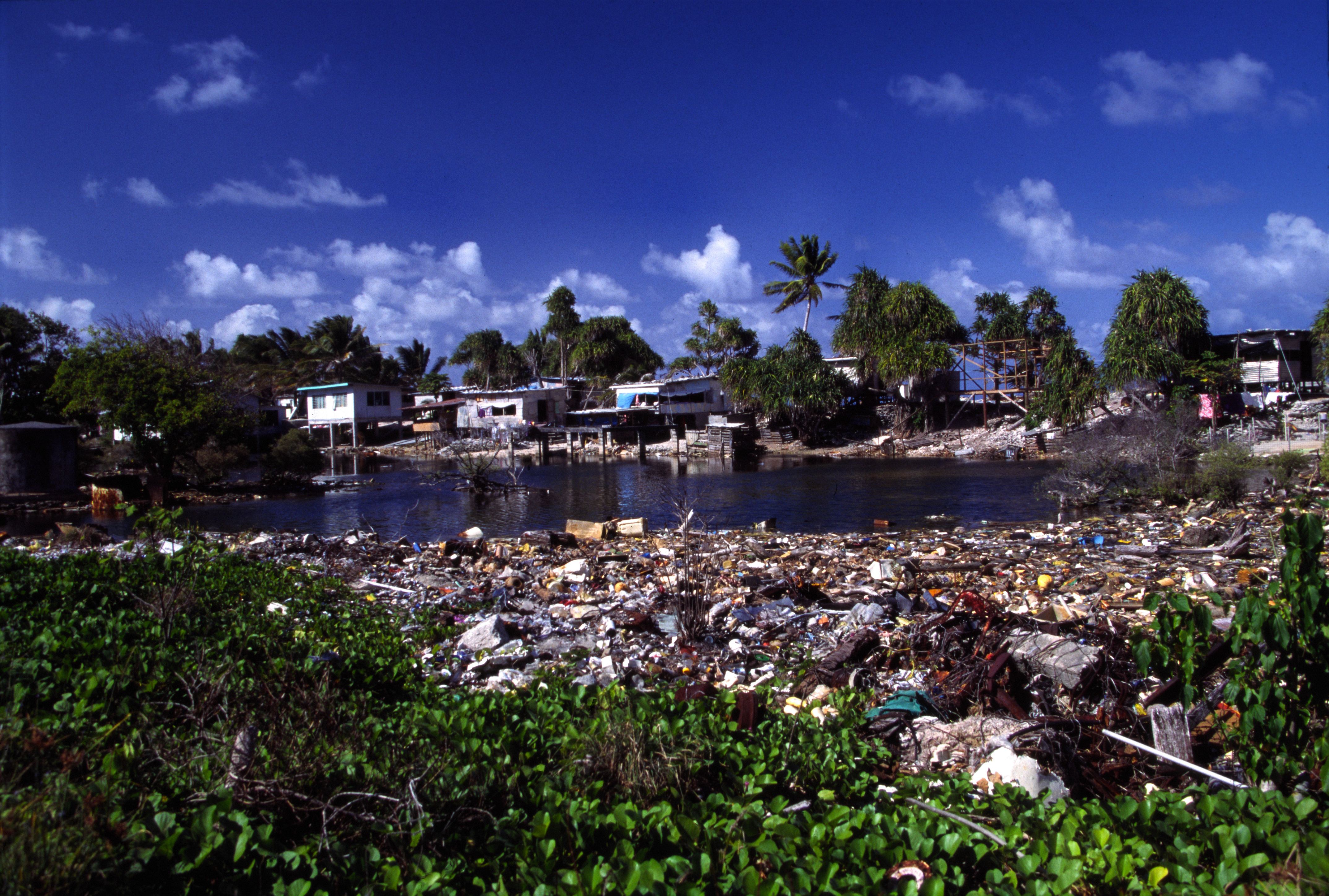 Dump on Funafuti Atoll, Tuvalu.